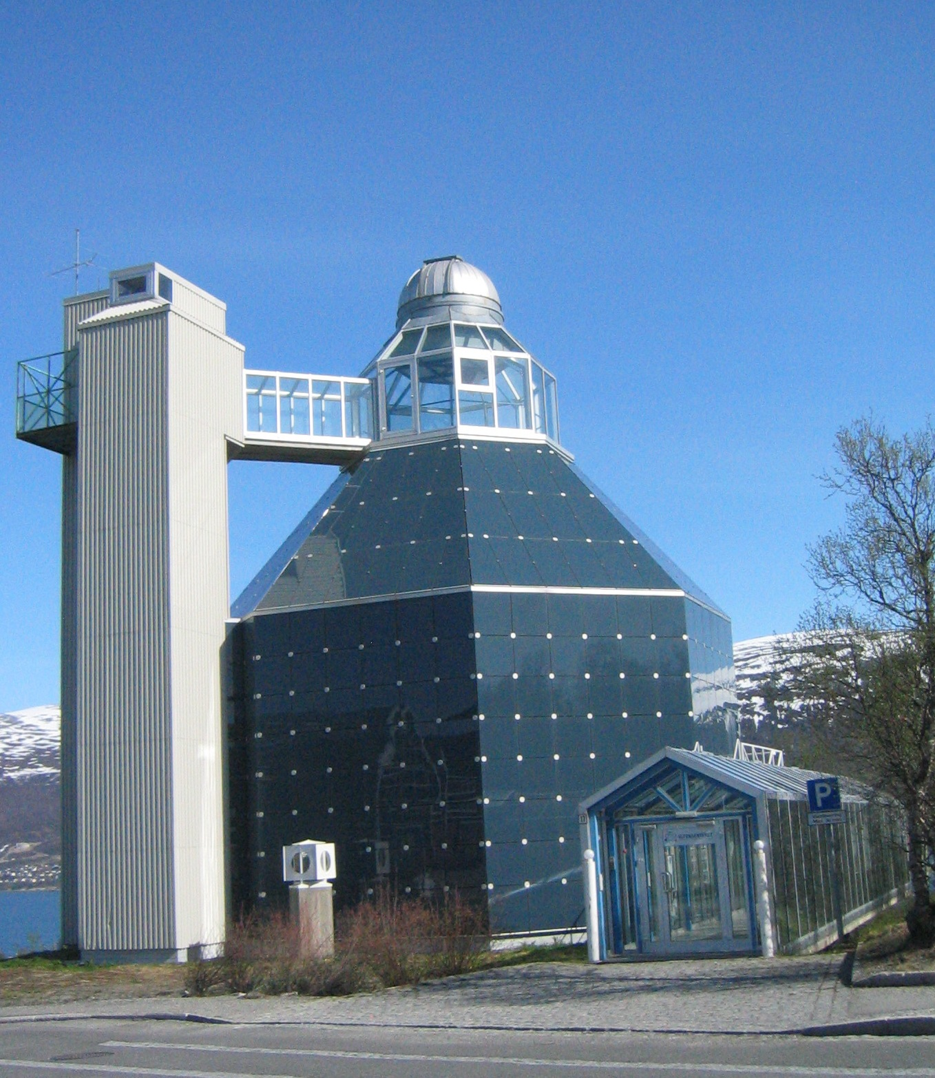 The planetarium in Tromsø, previously known as the Northern Lights Planetarium